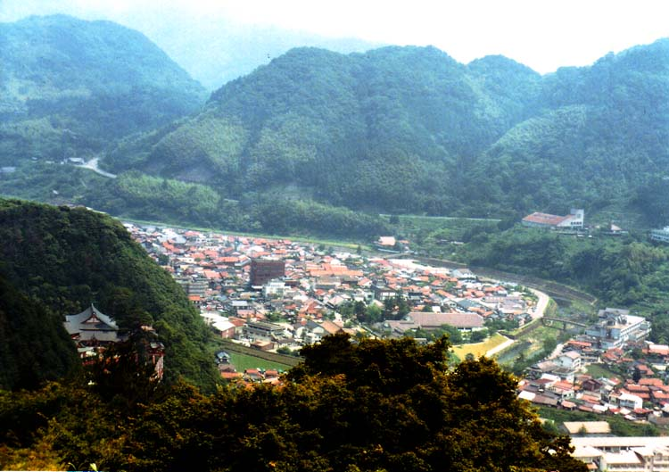 津和野盆地 Tsuwano town, Kanoashi county, Shimane, Japan.